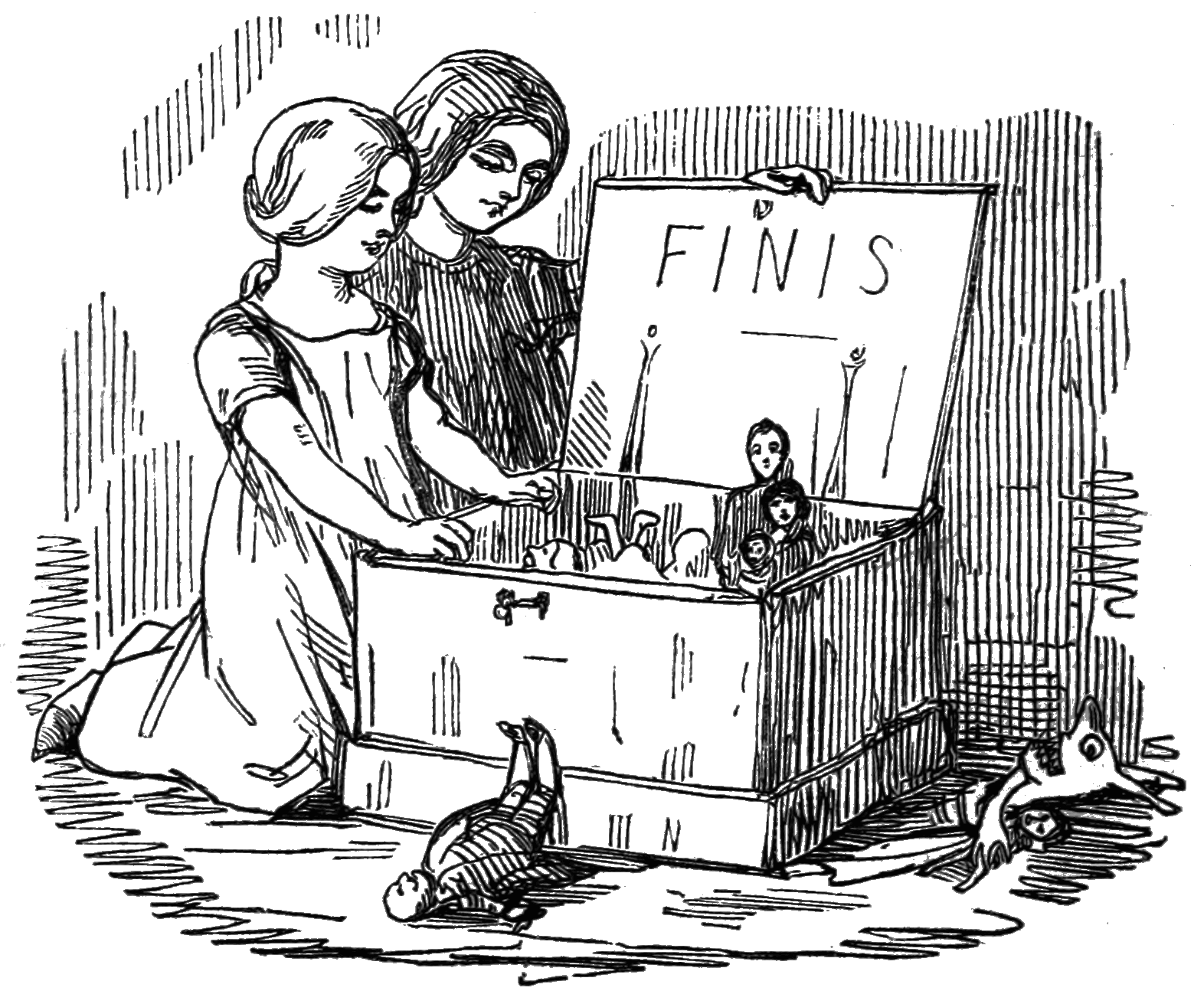 Untitled image from the novel. The number indicates the Djvu page number of the Wikisource transclusion.